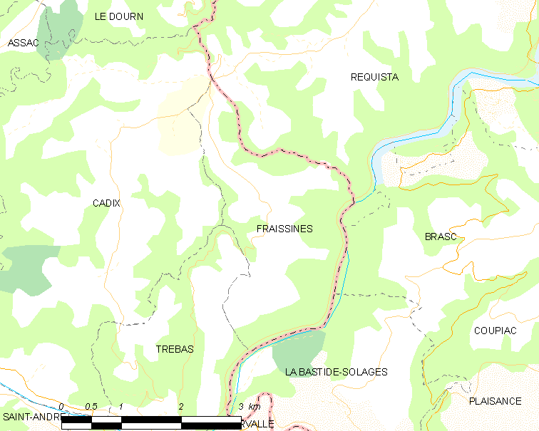 Map of French municipality Fraissines